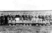 Football club Junak Drohobycz